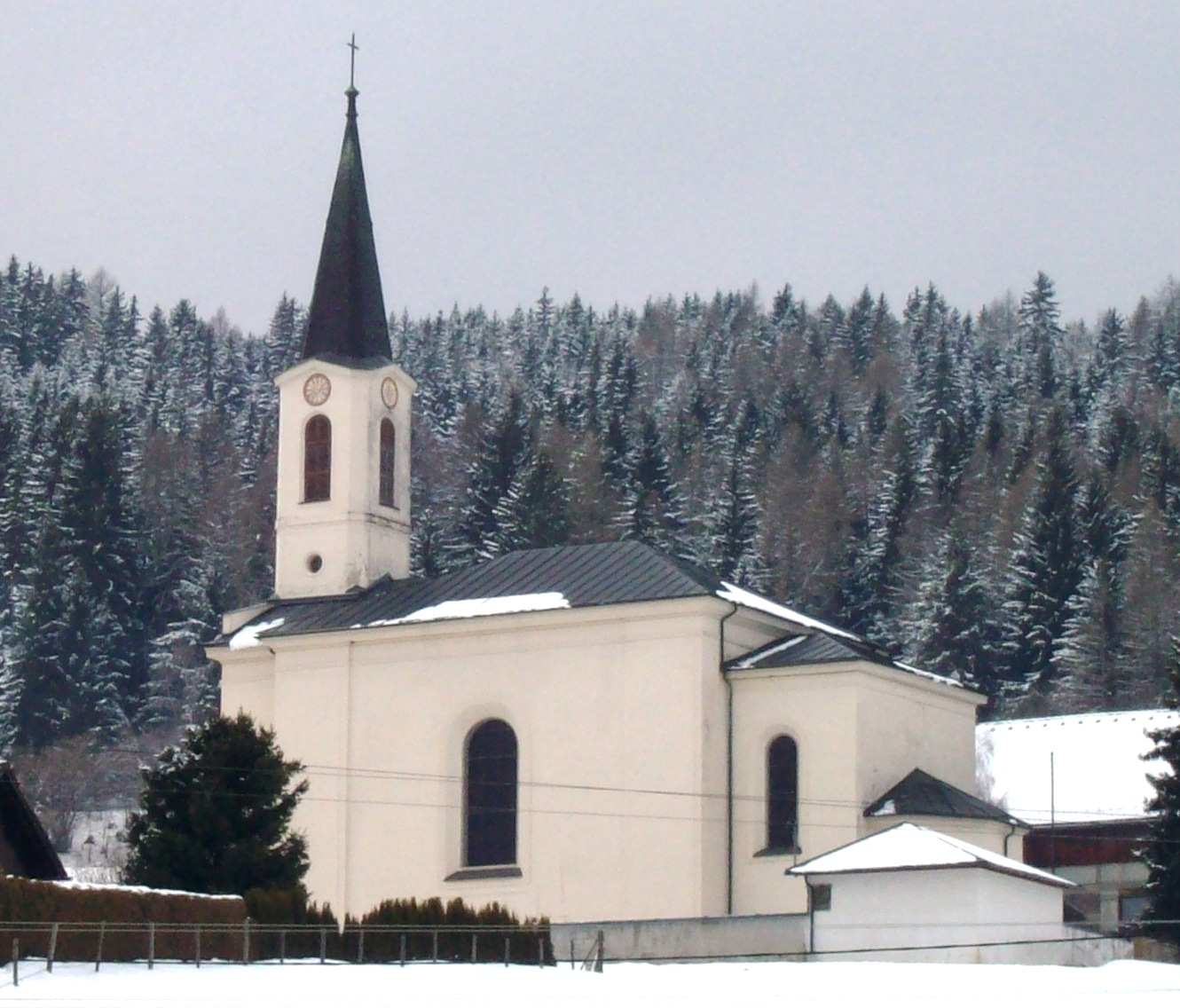 Perchau Pfarrkirch